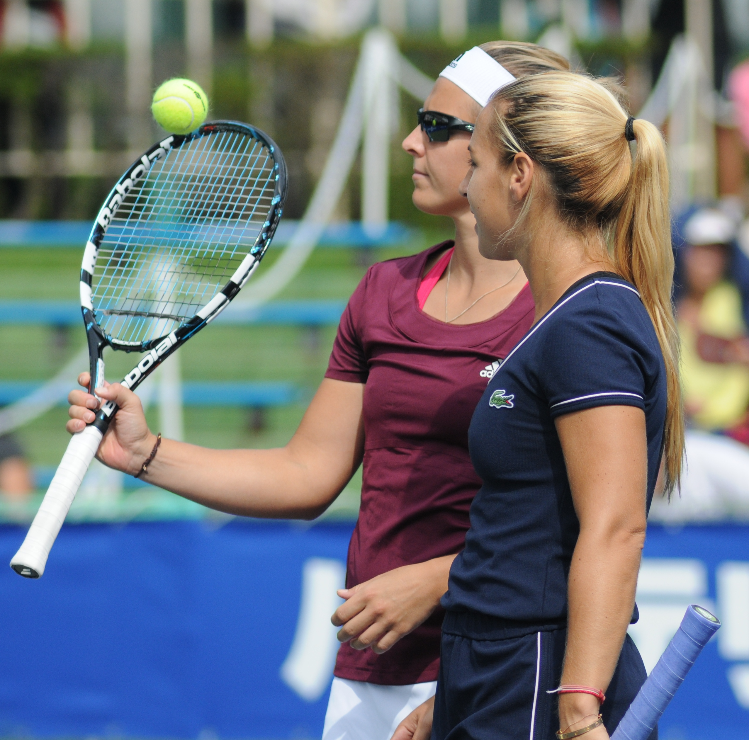 Kirsten Flipkens and Dominika Cibulková at the 2014 Toray Pan Pacific Open